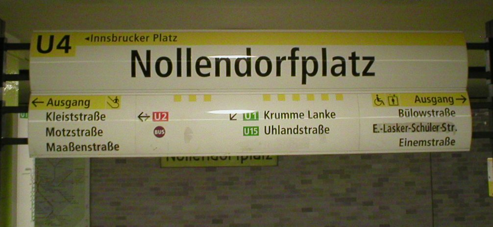 Station sign at Berlin's underground station Nollendorfplatz; Berlin, Germany